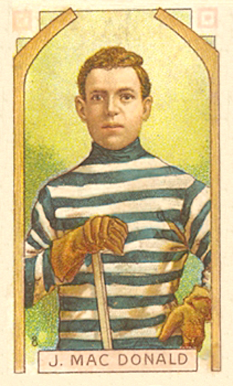 Hockey player Jack McDonald of the Quebec Bulldogs on a 1911 Imperial Tobacco hockey card.